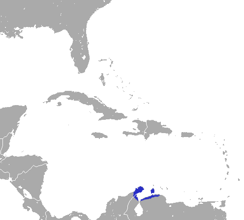 Dryland Mouse Opossum (Marmosa xerophila) range